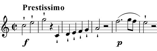 Joseph Haydn, Symphony No. 63, first version, last movement Prestissimo, violin 1, bar 1-8